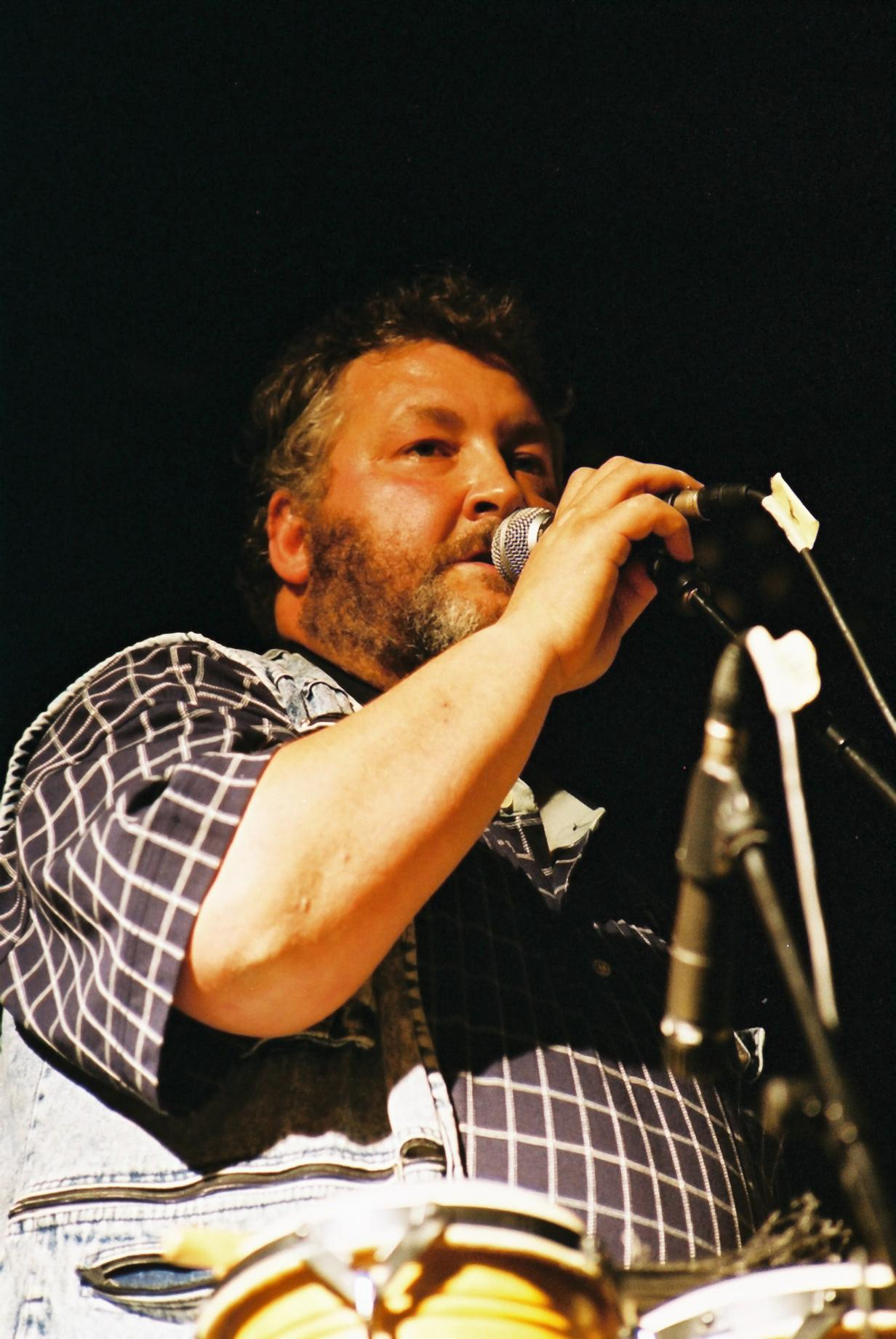 Llan de Cubel at the Interceltic Festival of Avilés (Asturies - Spain)